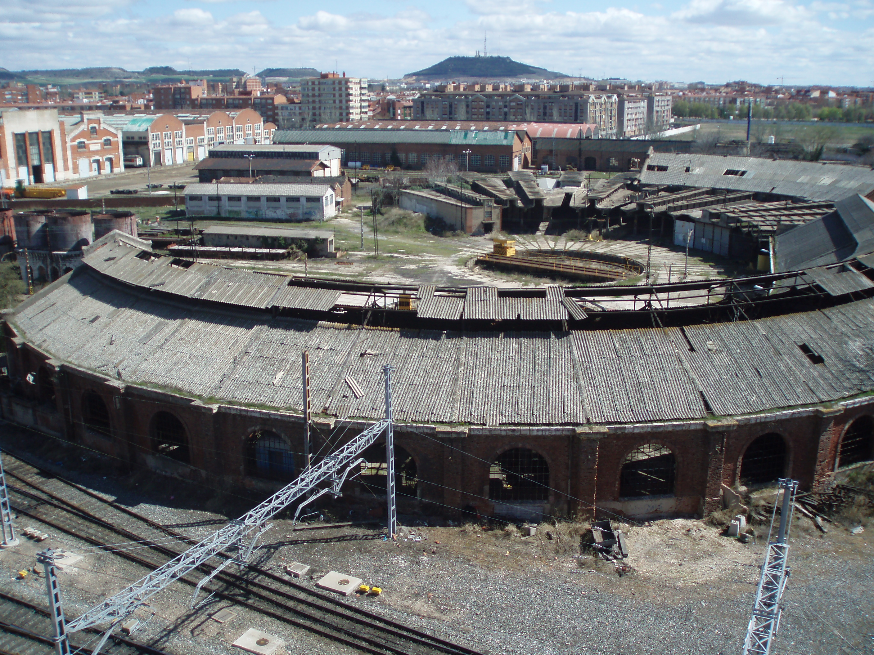 Outside of the Locomotive Deposit of Valladolid